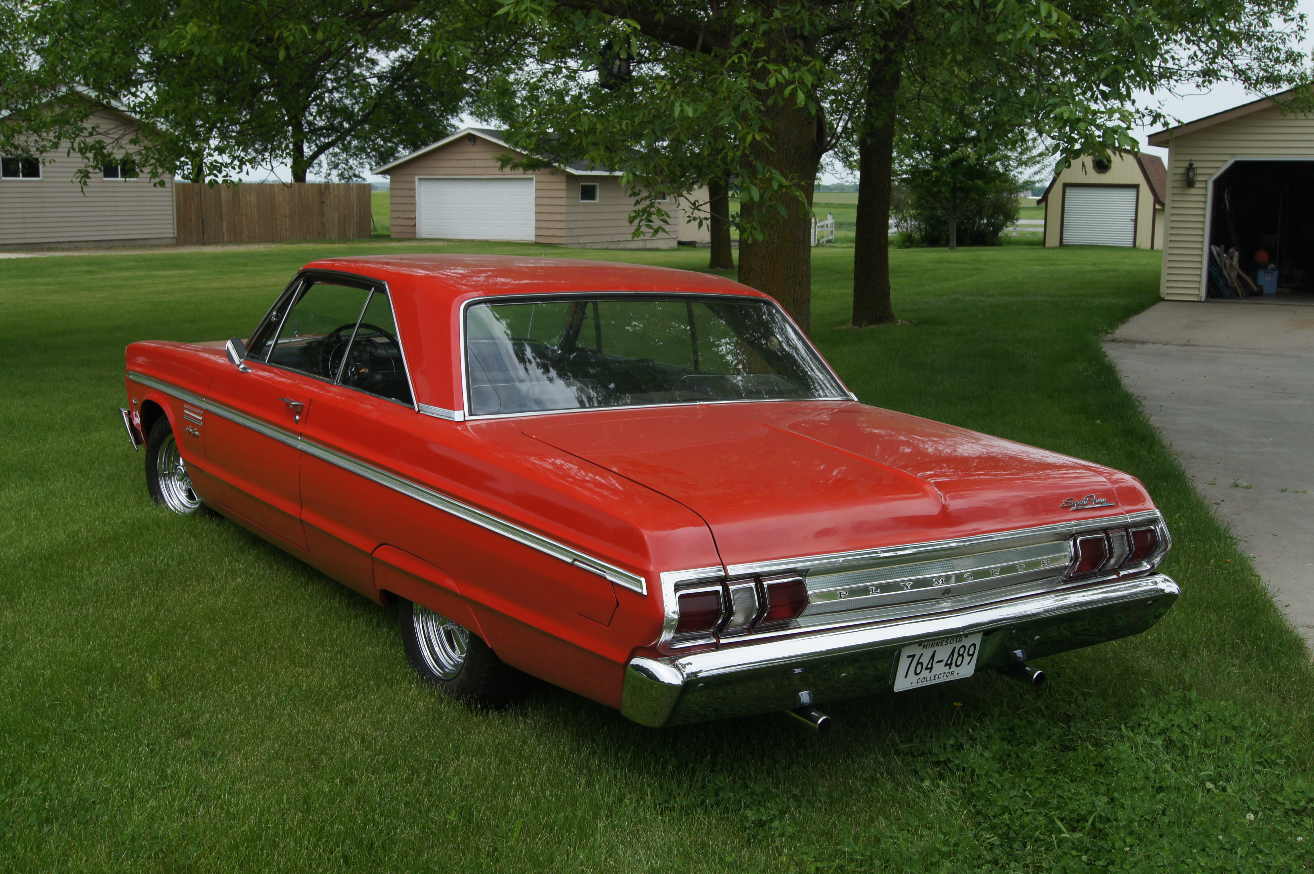 Click here for more car pictures at my Flickr site.